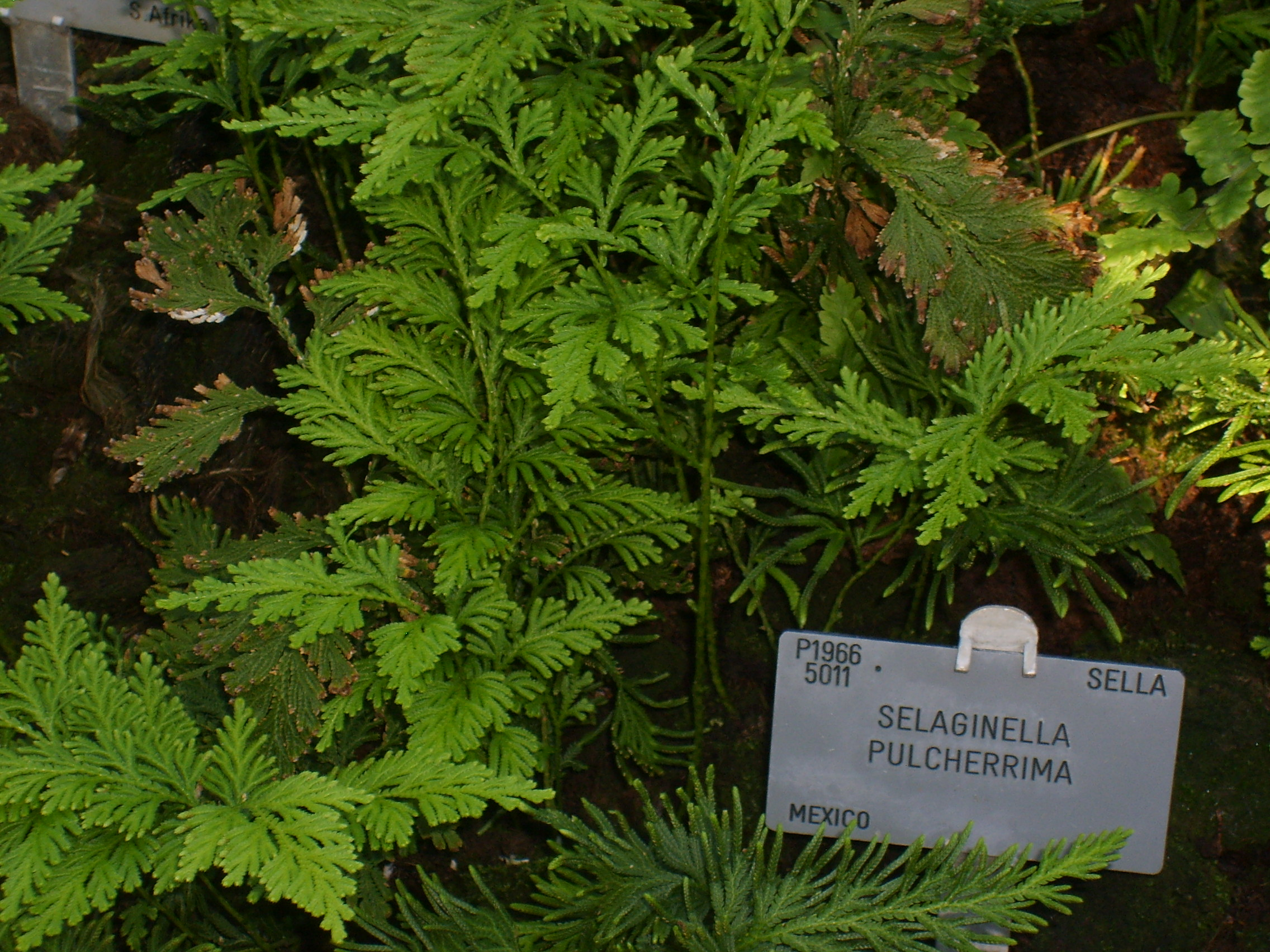 Copenhagen Botanical Garden, Selaginella pulcherrima